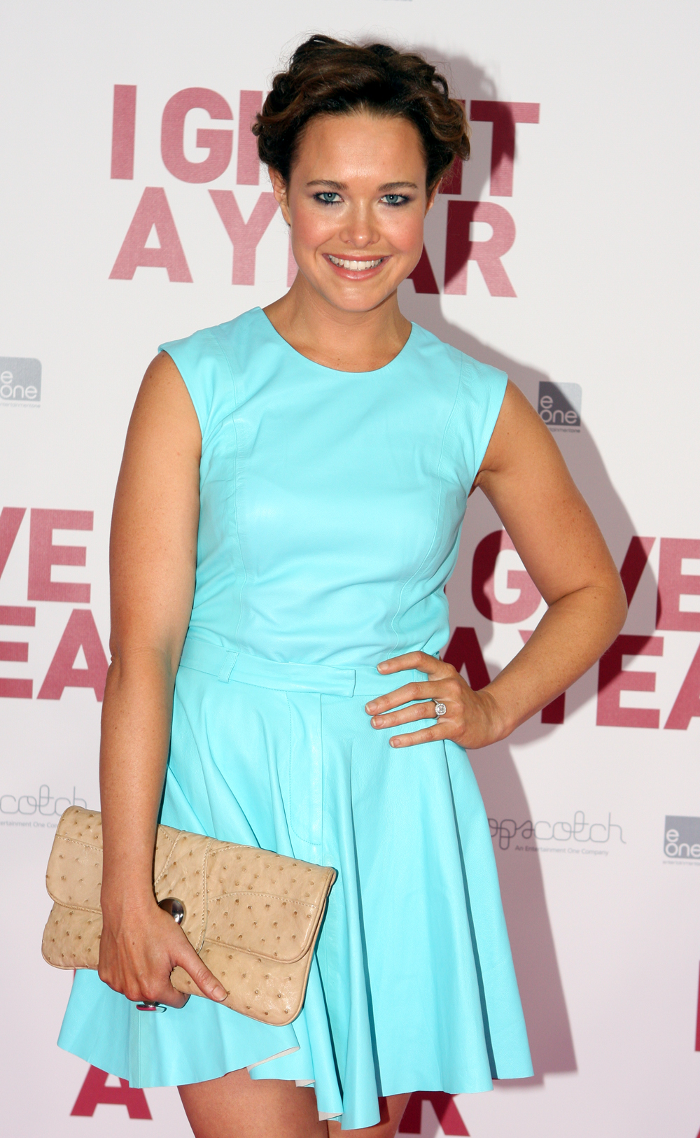 Krew Boylan